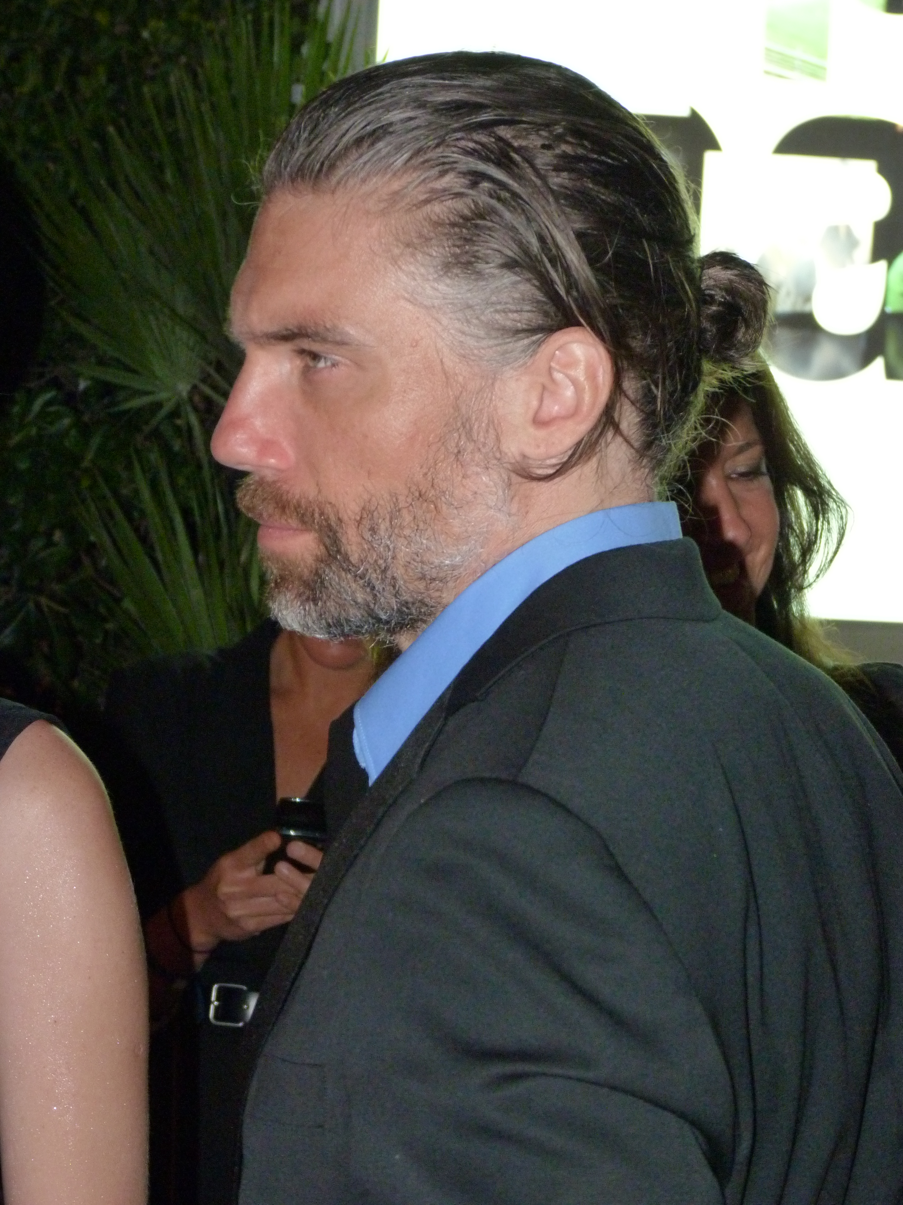 Anson Mount at the 2011 MIPCOM, in Cannes.